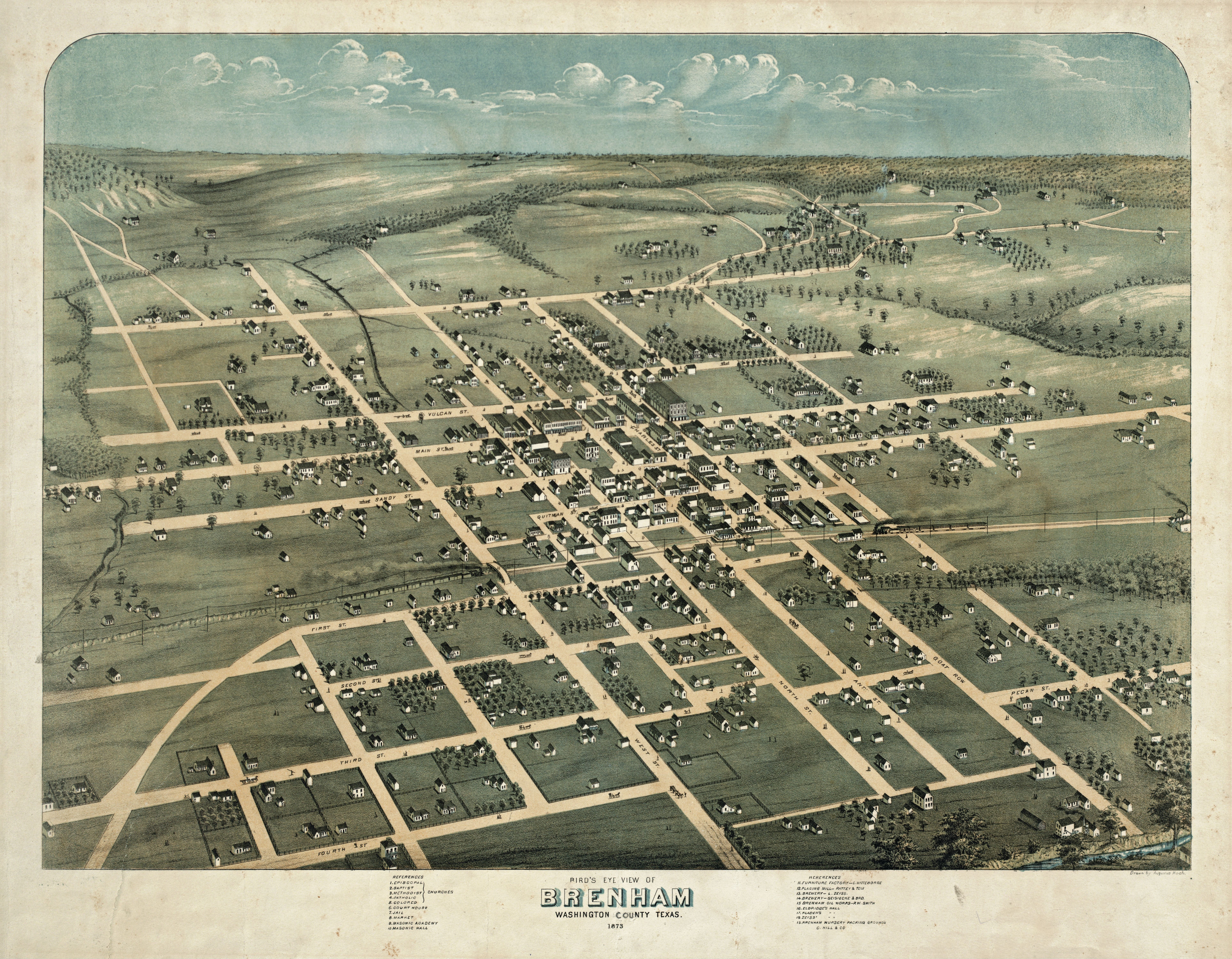 Brenham, Texas in 1873. Birdrsquos Eye View of Brenham, Washington County, Texas. 1873. 1873. Lithograph (hand-colored), 18.7 x 24.2 in. Lithographer unknown. Center for American History, The University of Texas at Austin.